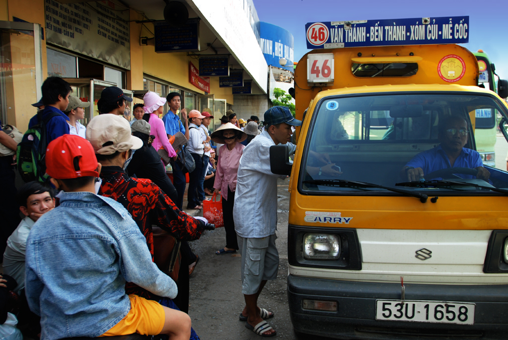 The transportation services is chaotic. Buses are slow and inadequate. Most people need a bike to move around, if not at least a bicycle. Bikes totally outnumbered the cars on the street. Strangely though accidents are rare and they drive like clock-work.